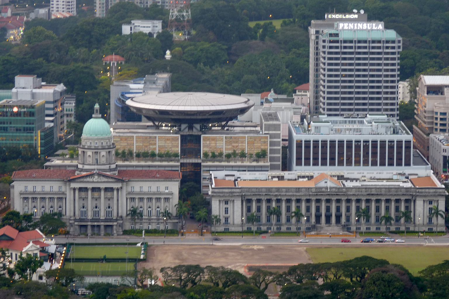 An aerial view of the Old Supreme Court Building, the Supreme Court of Singapore, City Hall and the Peninsula.Excelsior Hotel in Singapore.